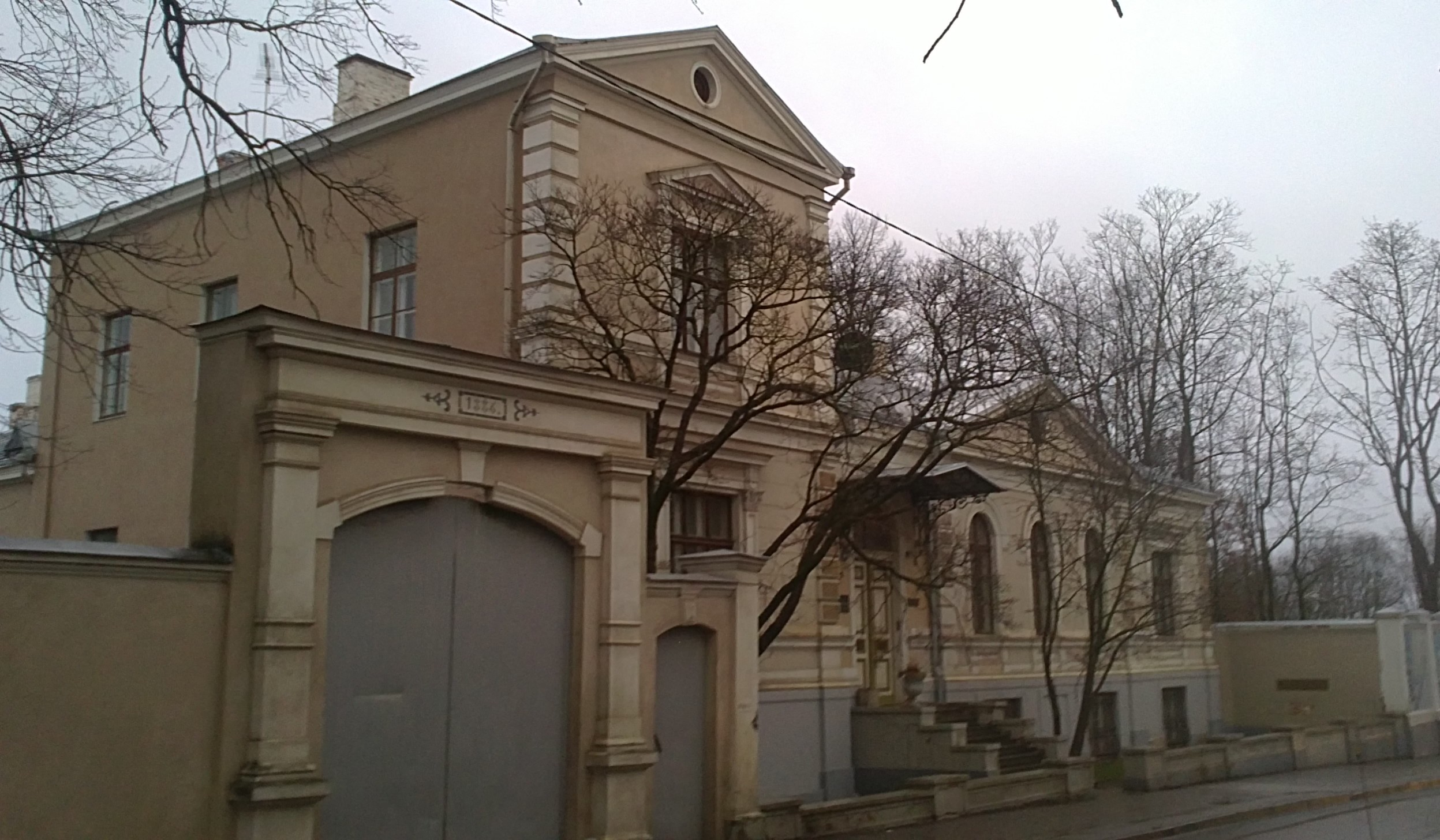 Building in Tartu, Vanemuise str. 19, former building of Estonian KGB Tartu Branch